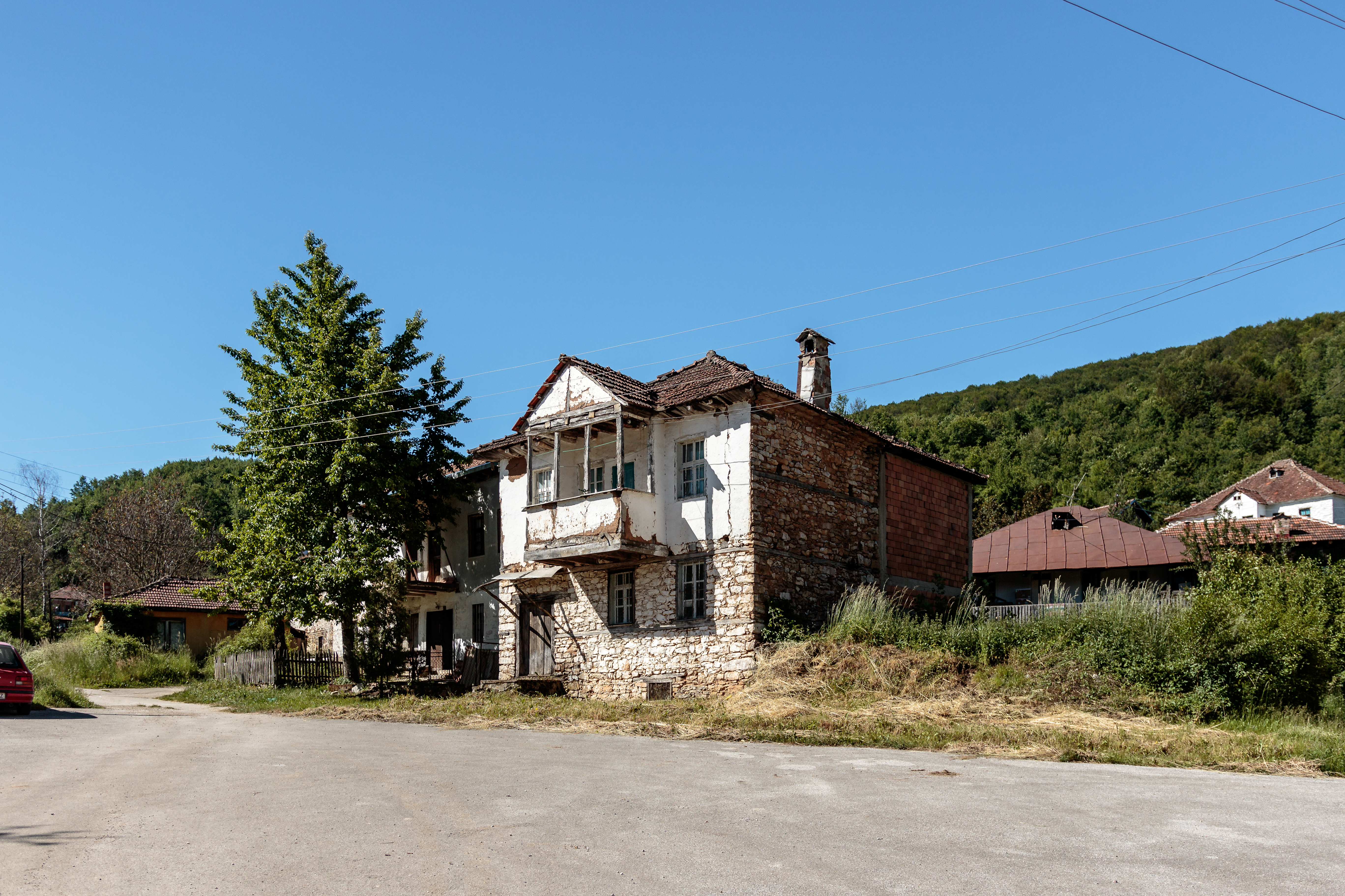 Old house in the village Velmevci